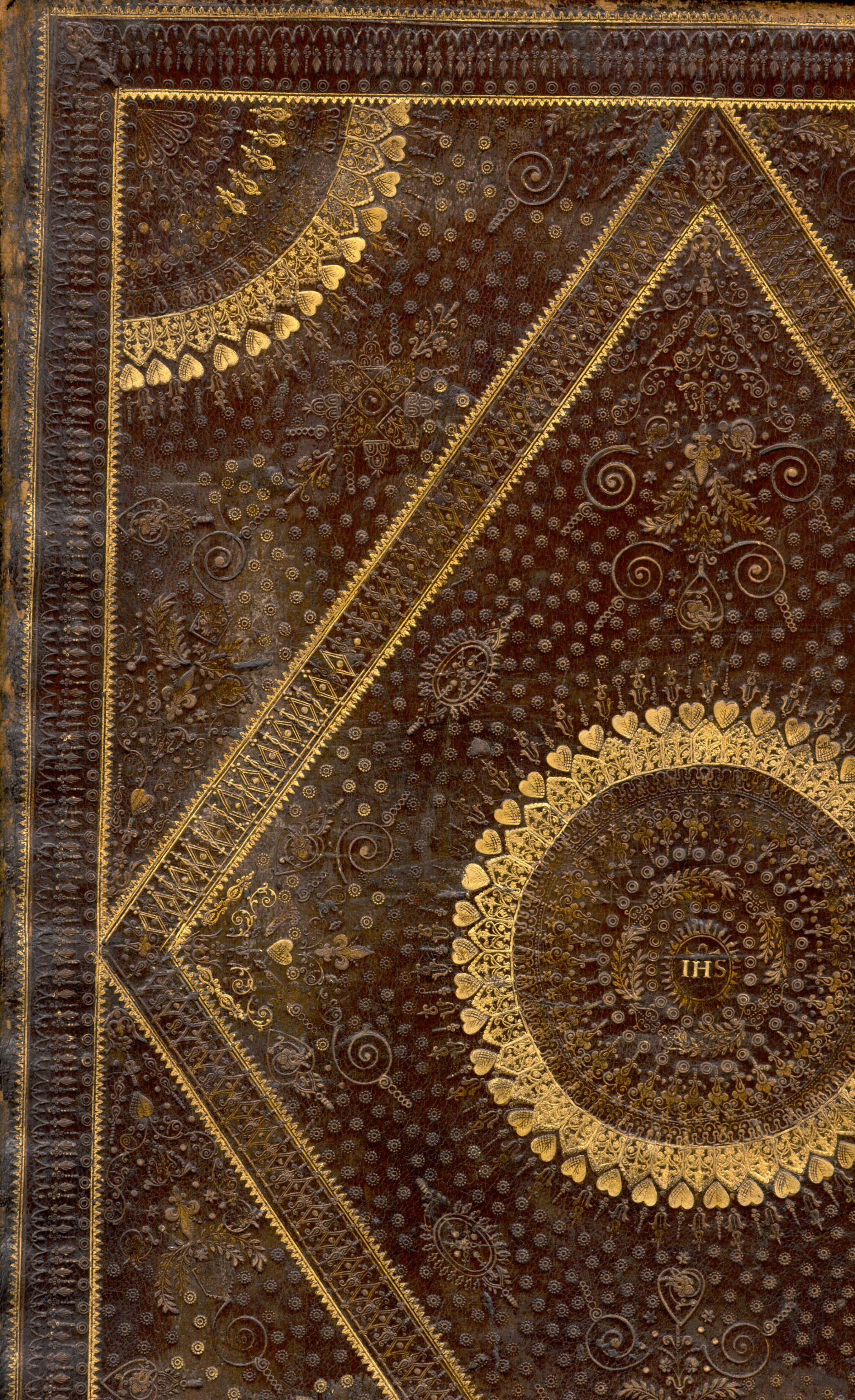 Style: All over design|Cambridge small motifs|Presentation|Religious, IHS initials; Caption: Upper cover; Colour: Brown; Edge: Gilt